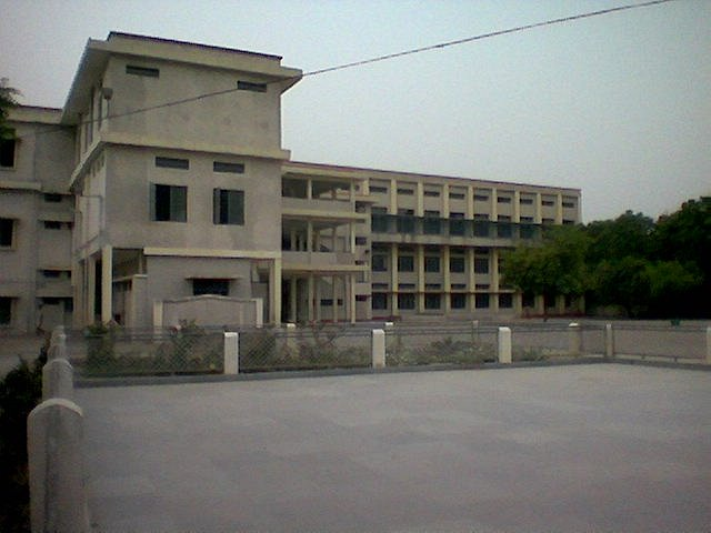 self.